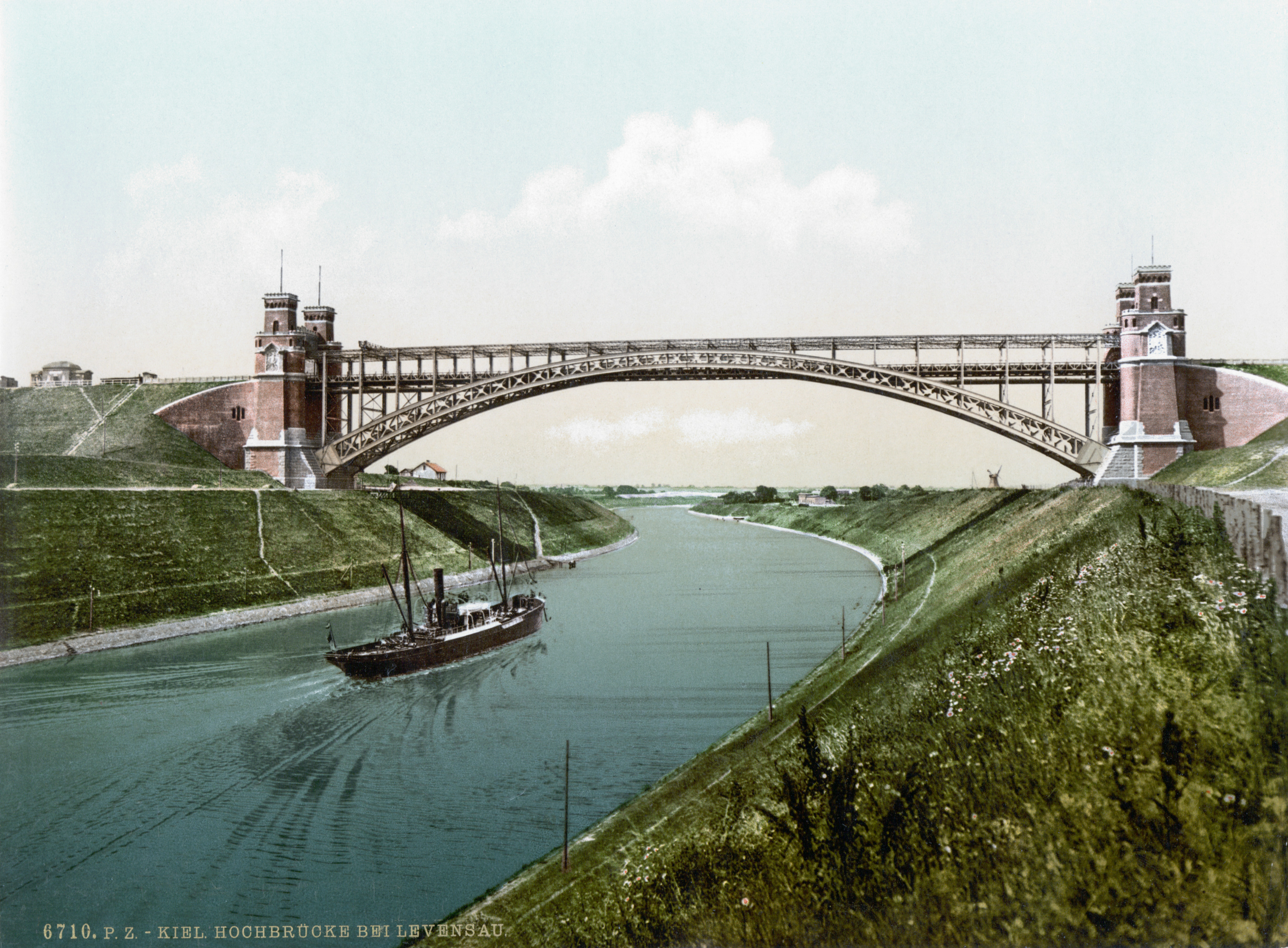 Kiel Canal (Levensauer Hochbrücke) ~ 1900